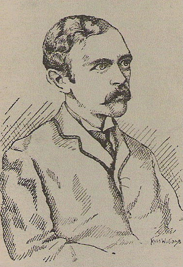 Thomas Edward Ellis (Tom Ellis), radical Welsh Liberal politician and patriot (picture by Moss Williams for the biography Tom Ellis: y gwladgarwr by O. Llew Owain, Caernarfon, 1915)